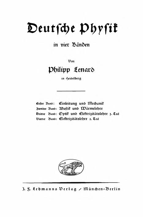 Philipp Lenard: Deutsche Physik in vier Bänden. Dritte, vermehrte Auflage, Lehmanns Verlag München-Berlin, 1943